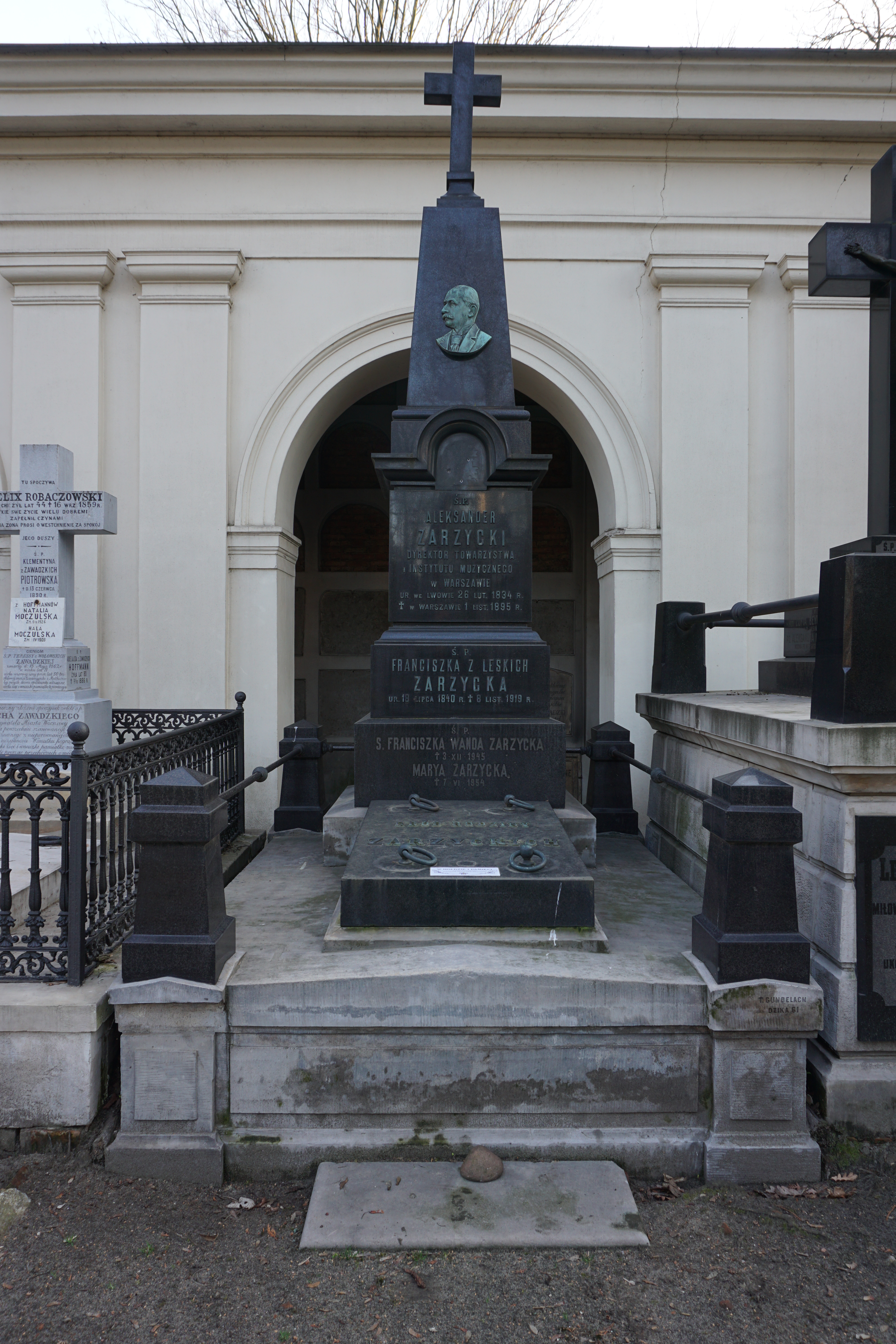 The grave of Aleksander Zarzycki at the Powązki Cemetery (section Under the catacombs, grave 71, 72)